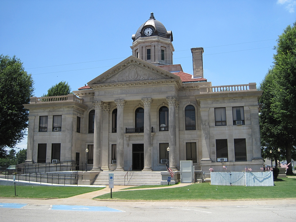 Downtown Harrisburg, Arkansas Court house